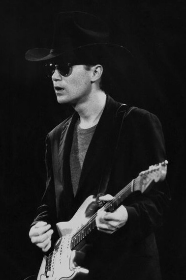 Marshall Crenshaw live in New York City